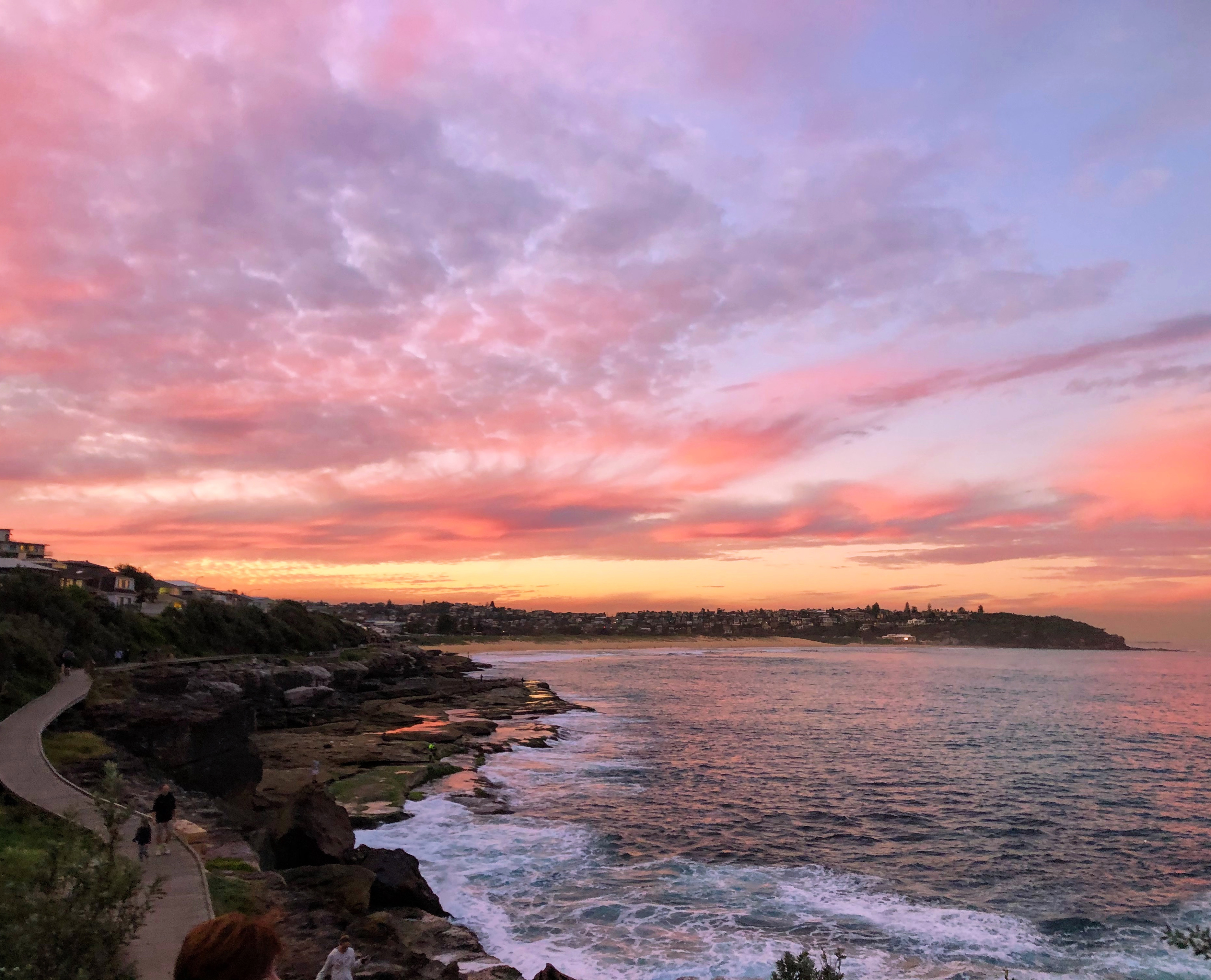 Sunset at the boardwalk between Freshwater Beach and South Curl Curl Beach